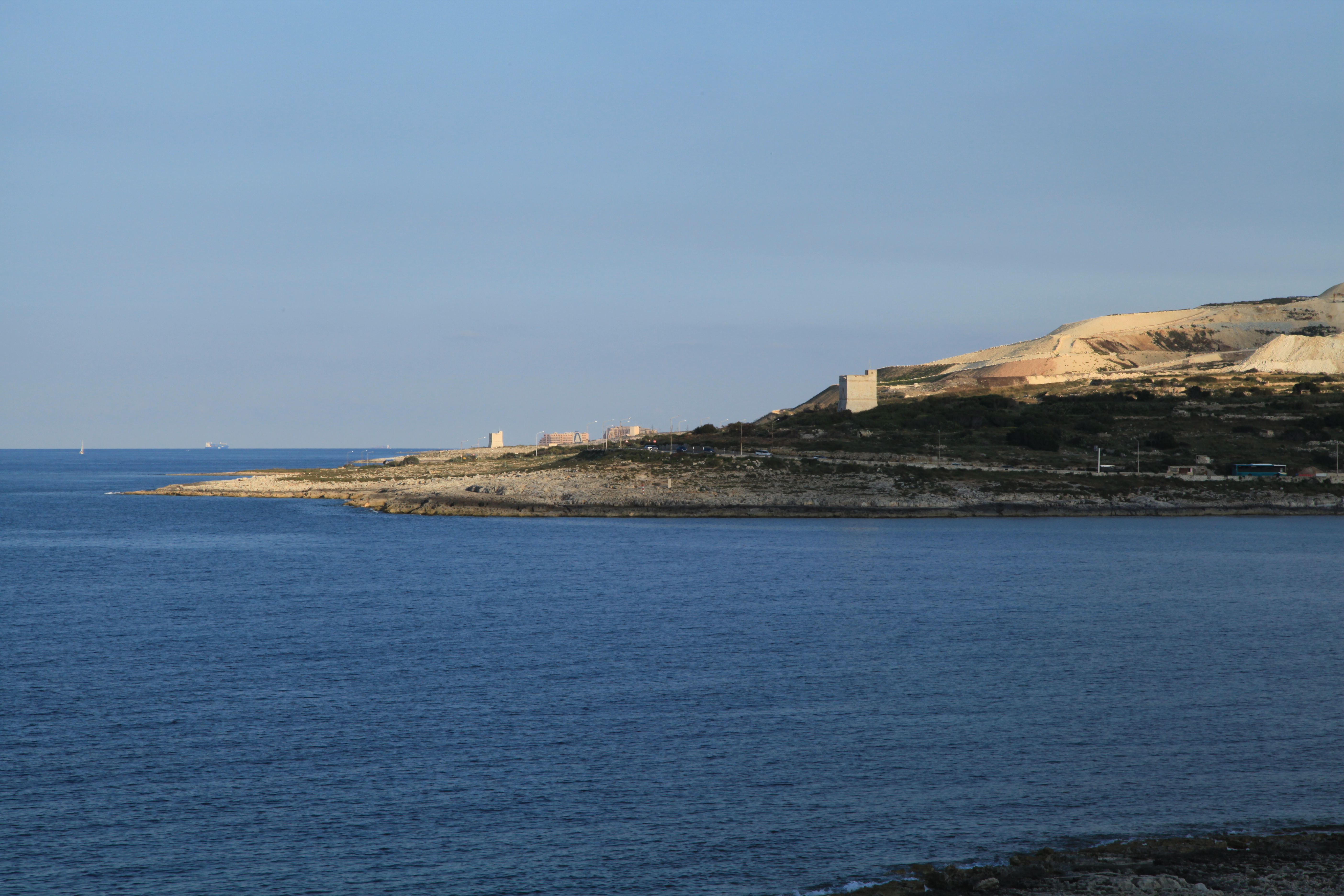 View from Ras il-Qawra in St. Paul's Bay over the Salina Bay to Ras il-Għallis, Għallis Tower and Magħtab Landfill at Tul il-Kosta in Naxxar, Malta